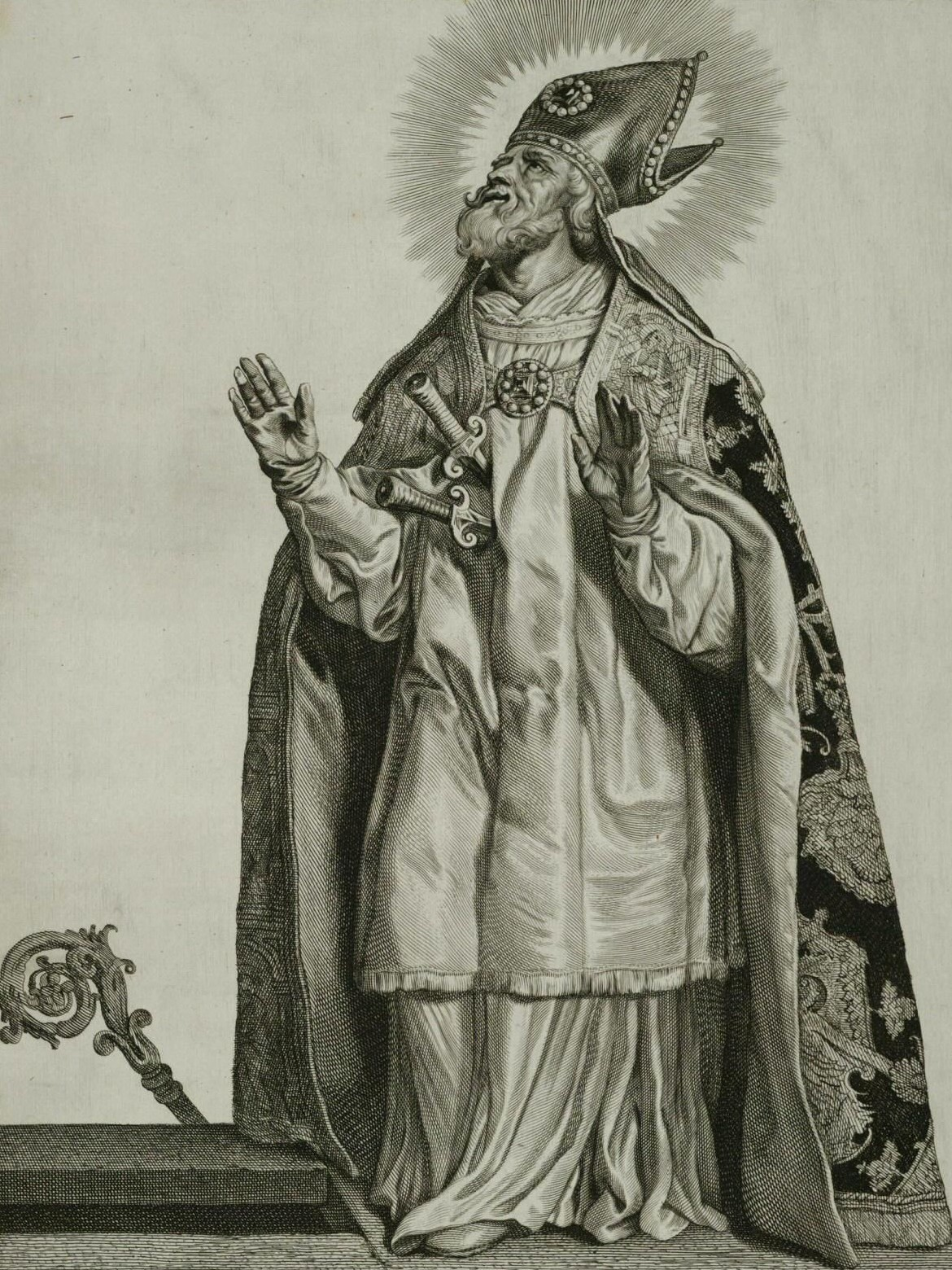 Saint Frederick of Utrecht